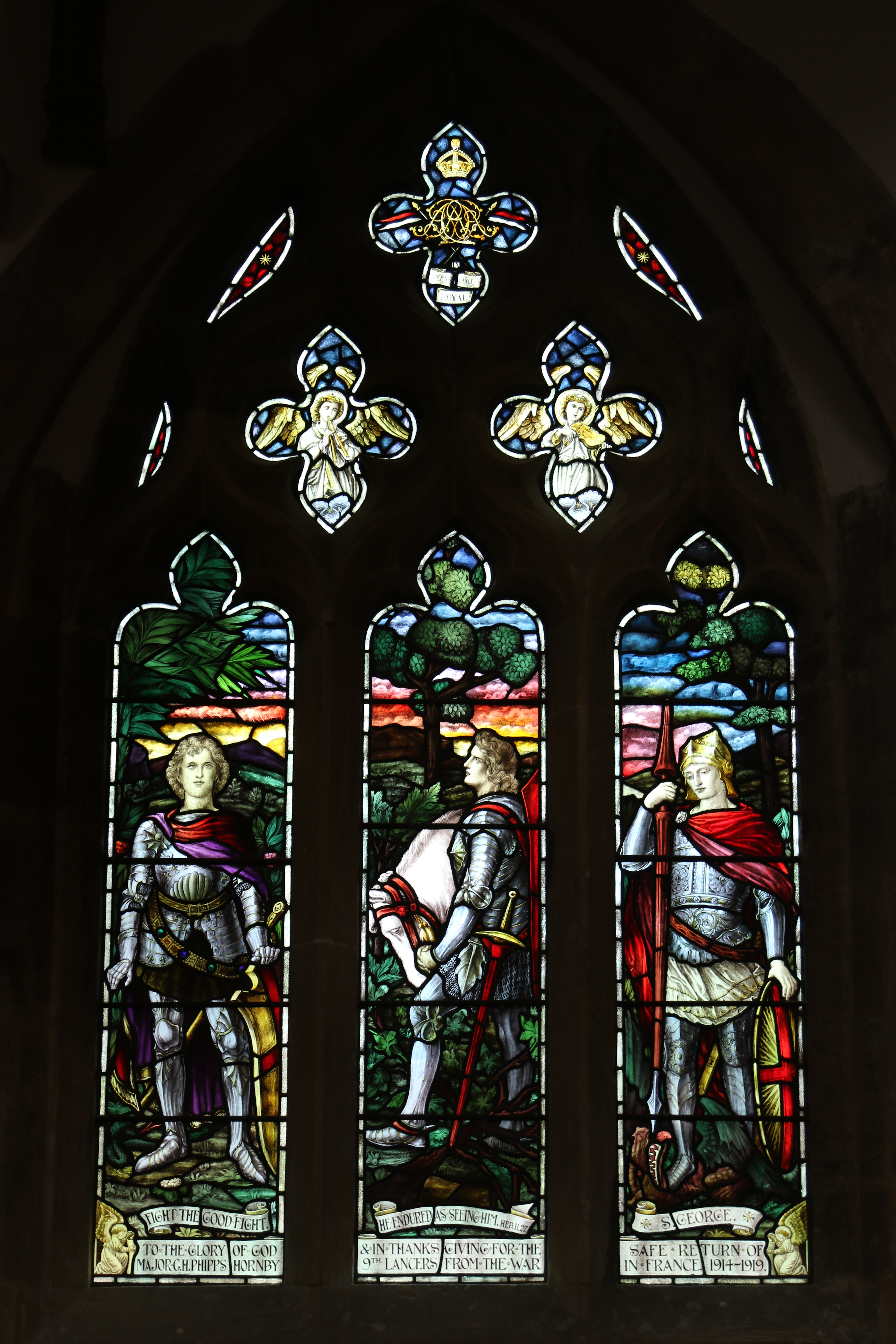 Major C.H. Phipps Hornby 9th Lancers